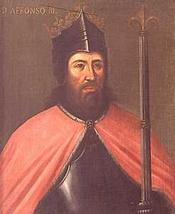 picture of Afonso III of Portugal king of portugal 1248-1279